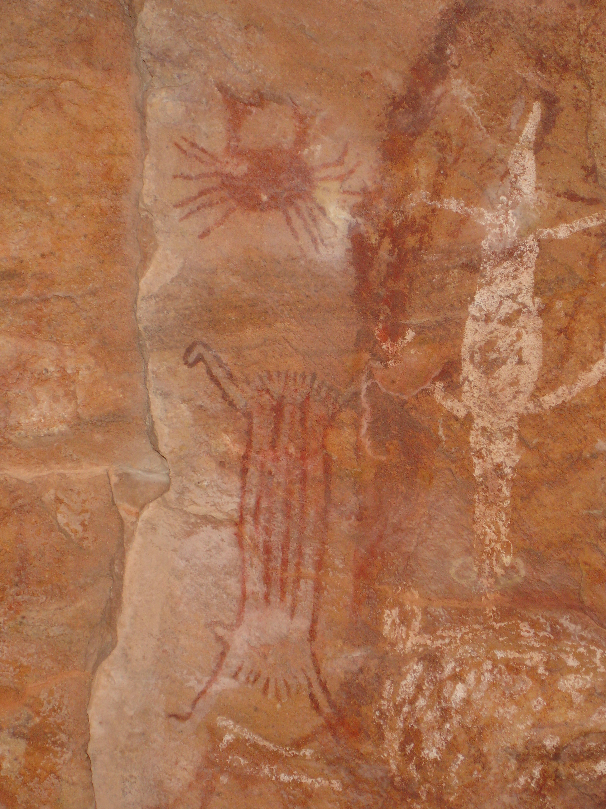 Painting